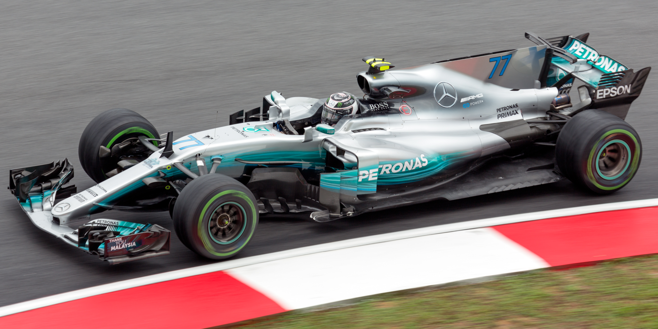 Formula One 2017 Rd.15 Malaysian GP: Valtteri Bottas (Mercedes)